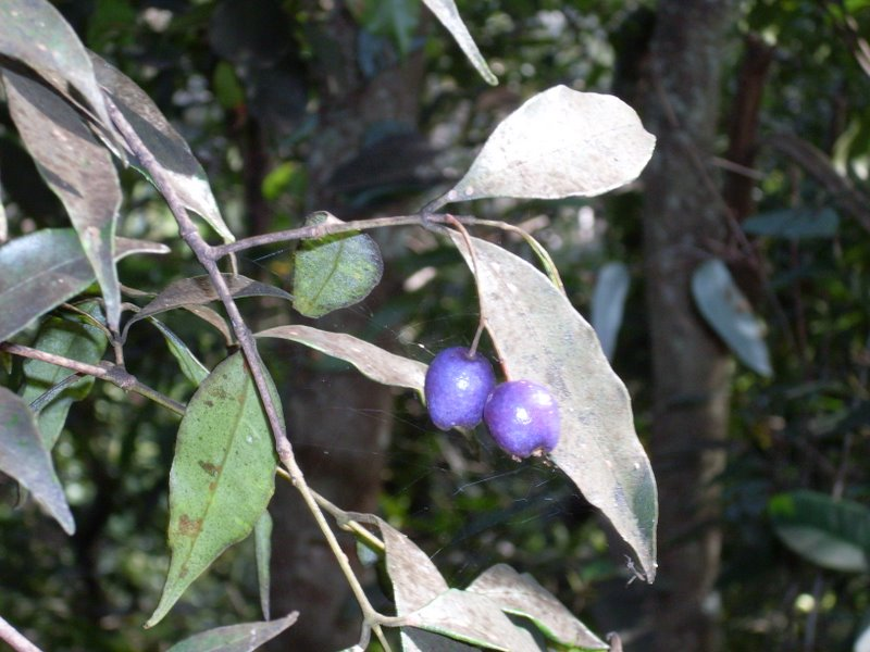 Syzygium oleosum at Barrenjoey